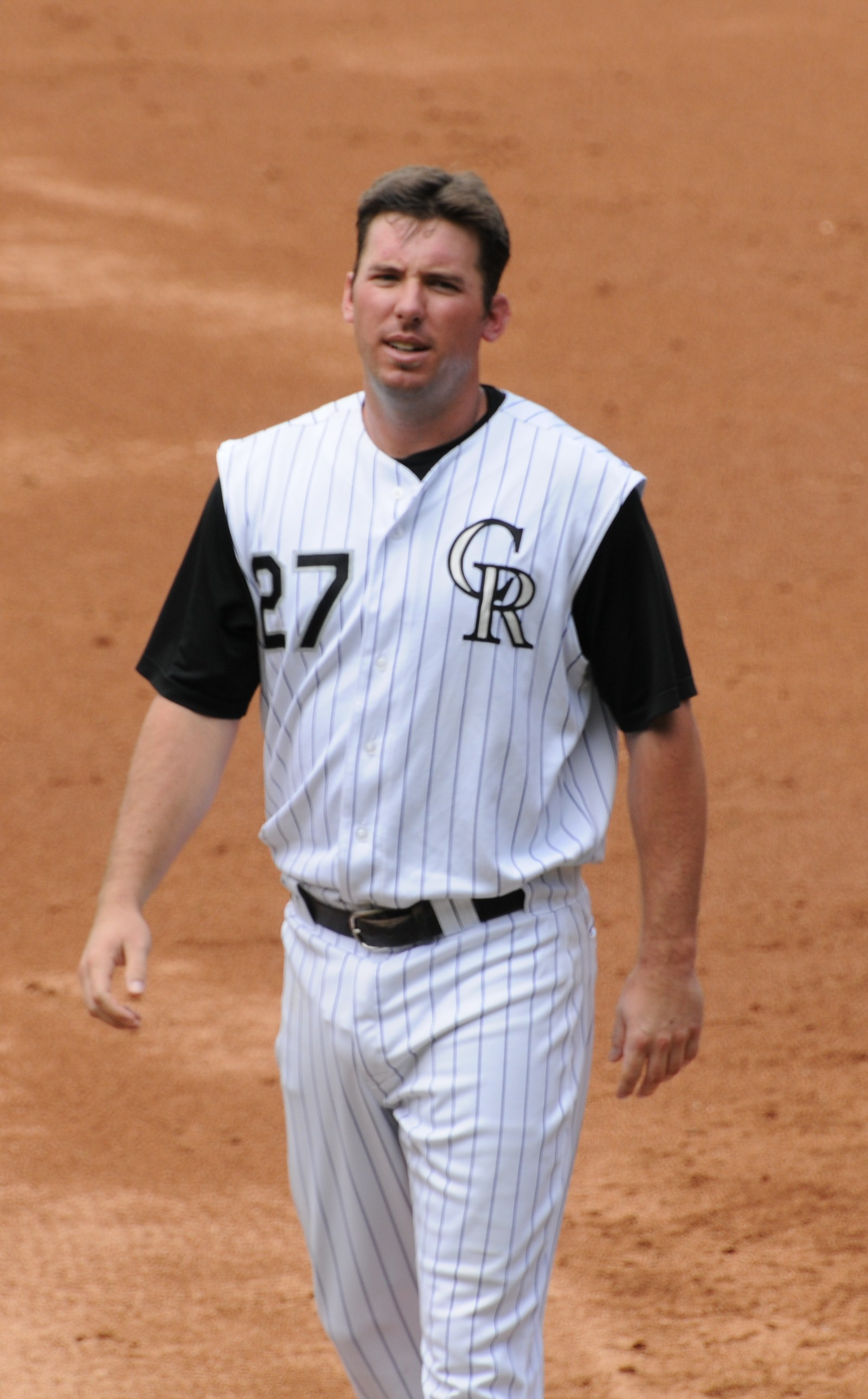 Description own work DateSourceI created this work entirely by myself.AuthorOnetwo1 (talk) 01:38, 11 August 2008 . . Onetwo1 . . 1,601×2,580 (516 KB) own work